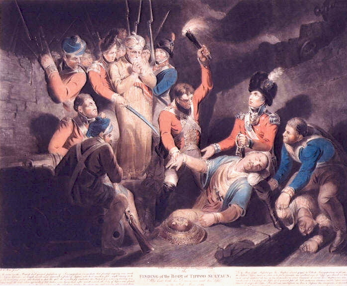 'Finding the Body Of Tippoo Sultan', a coloured engraving by Samuel William Reynolds, London, 1800* (BL)